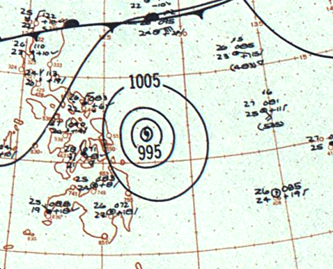 Surface weather analysis of Typhoon Gilda at its peak intensity near landfall on the Philippines on December 17, 1959.